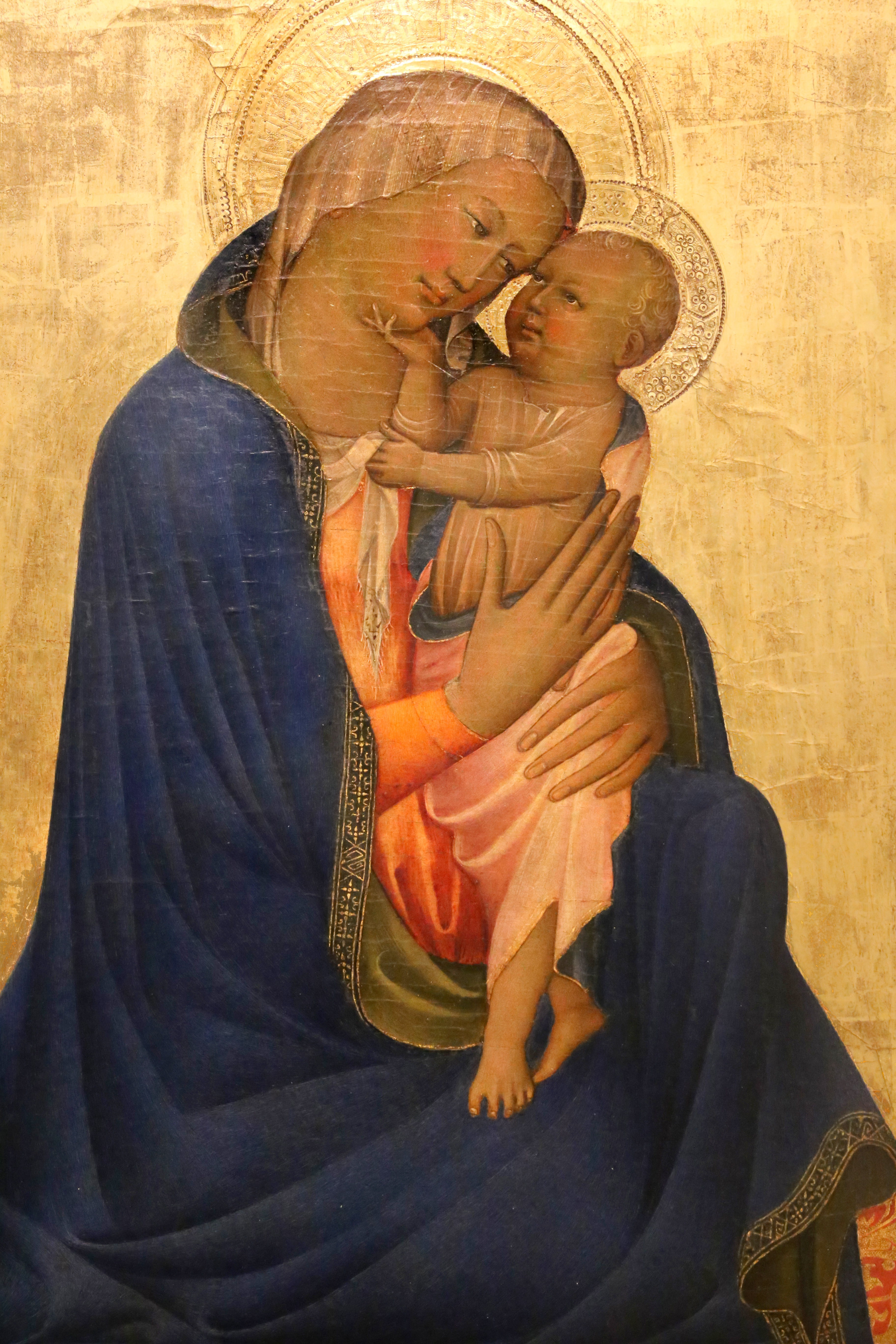 Misericordia exhibition in Senigalllia (2016)